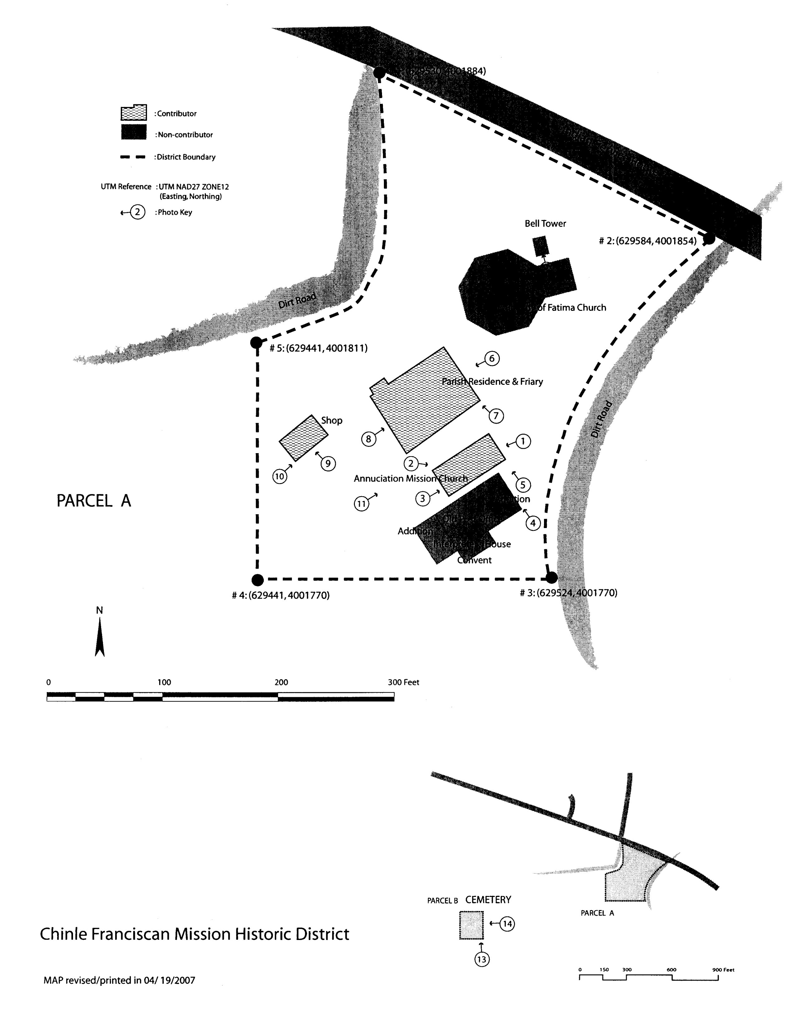 Map of the Chinle Franciscan Mission Historic District in Arizona